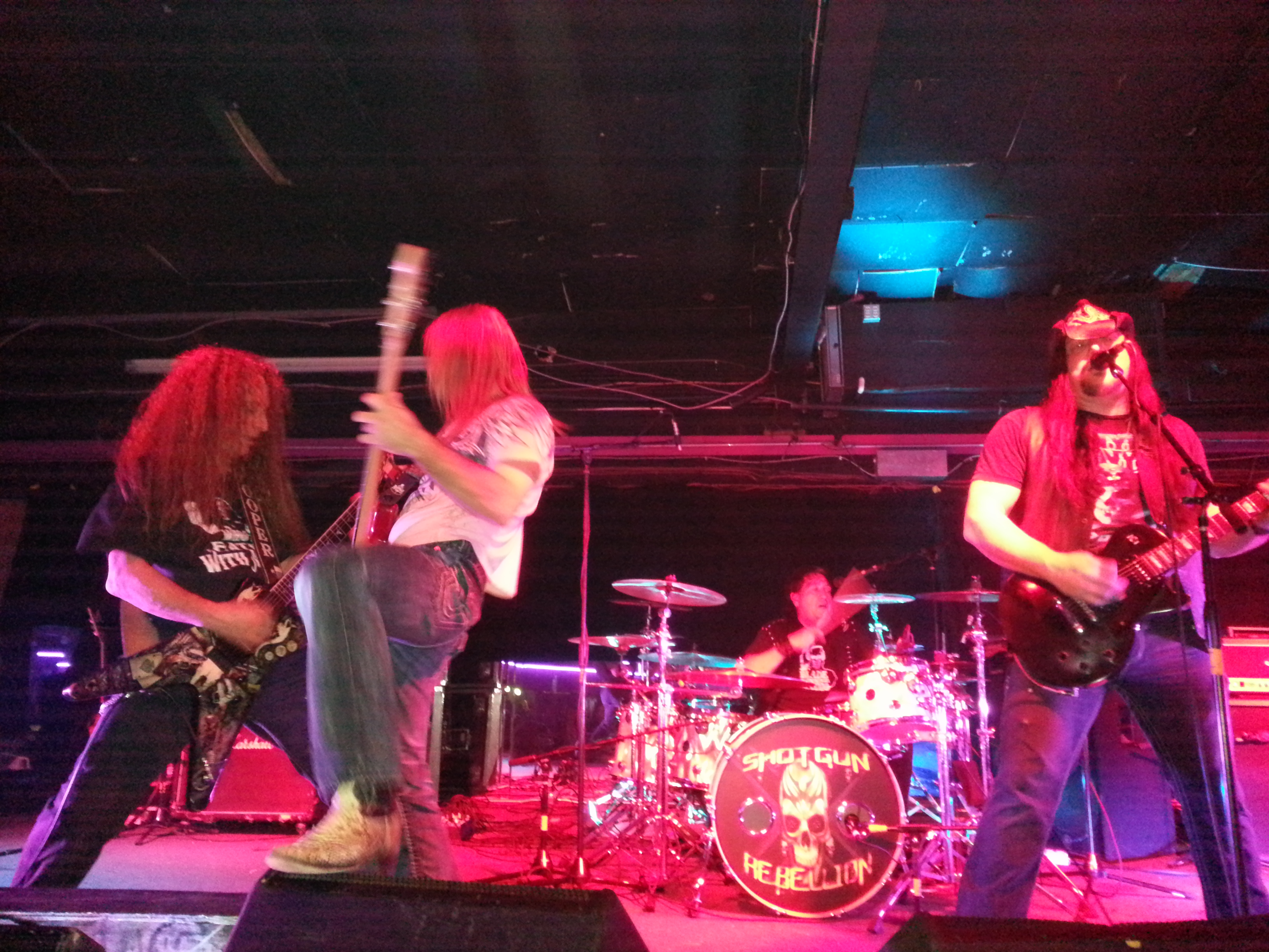 Oklahoma southern rock band Shotgun Rebellion